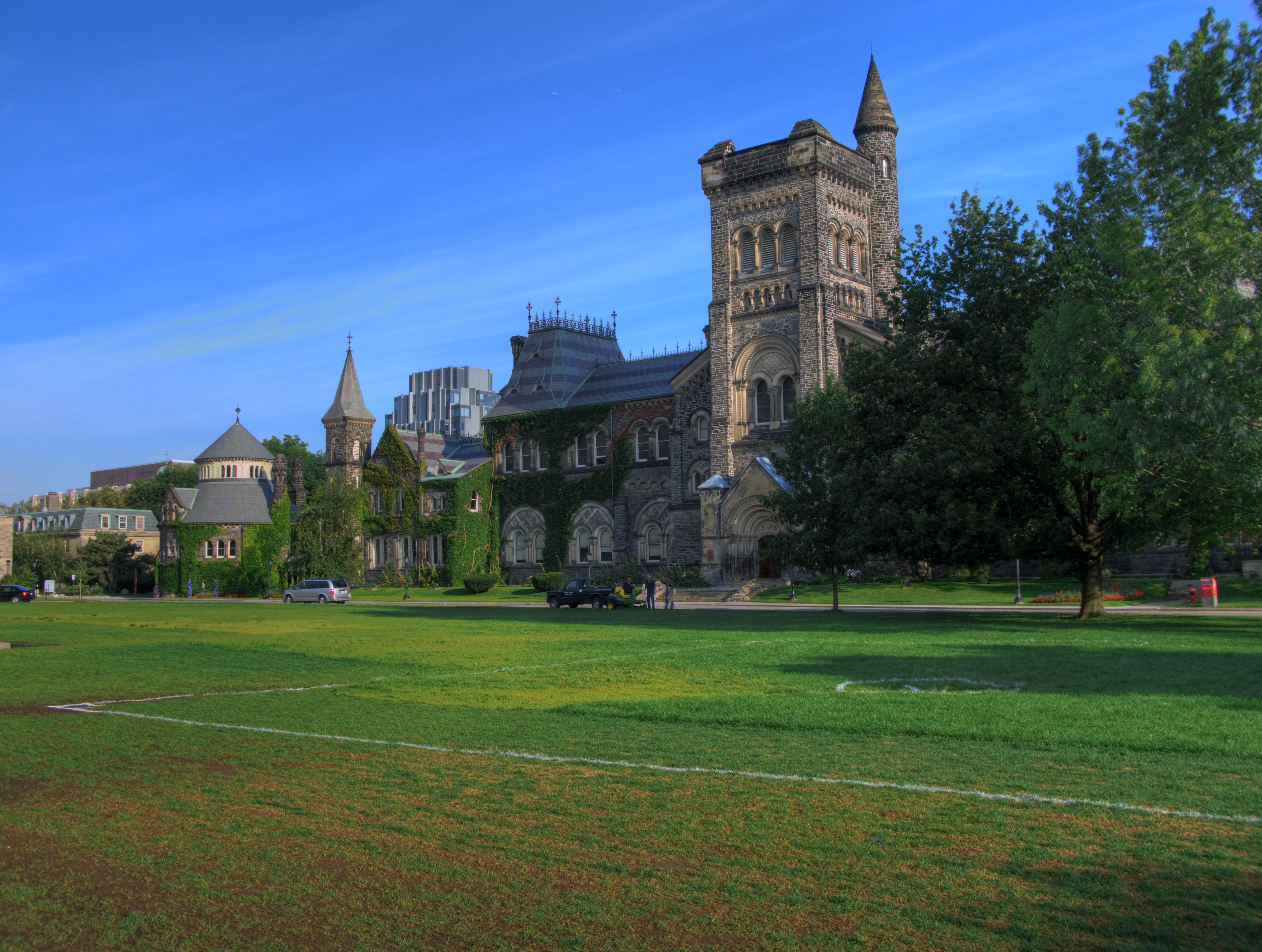 Shot of University College, University of Toronto, at 8AM